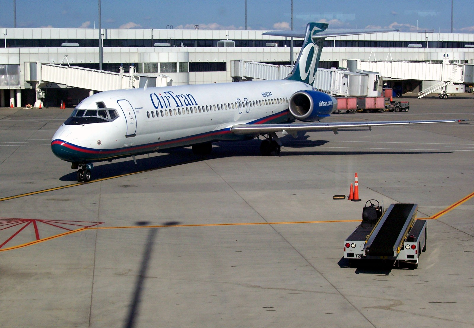 AirTran Airways Boeing 717 arrives at Greater Rochester, NY International Airport, Gate A2, from Baltimore-Washington, in June 2009